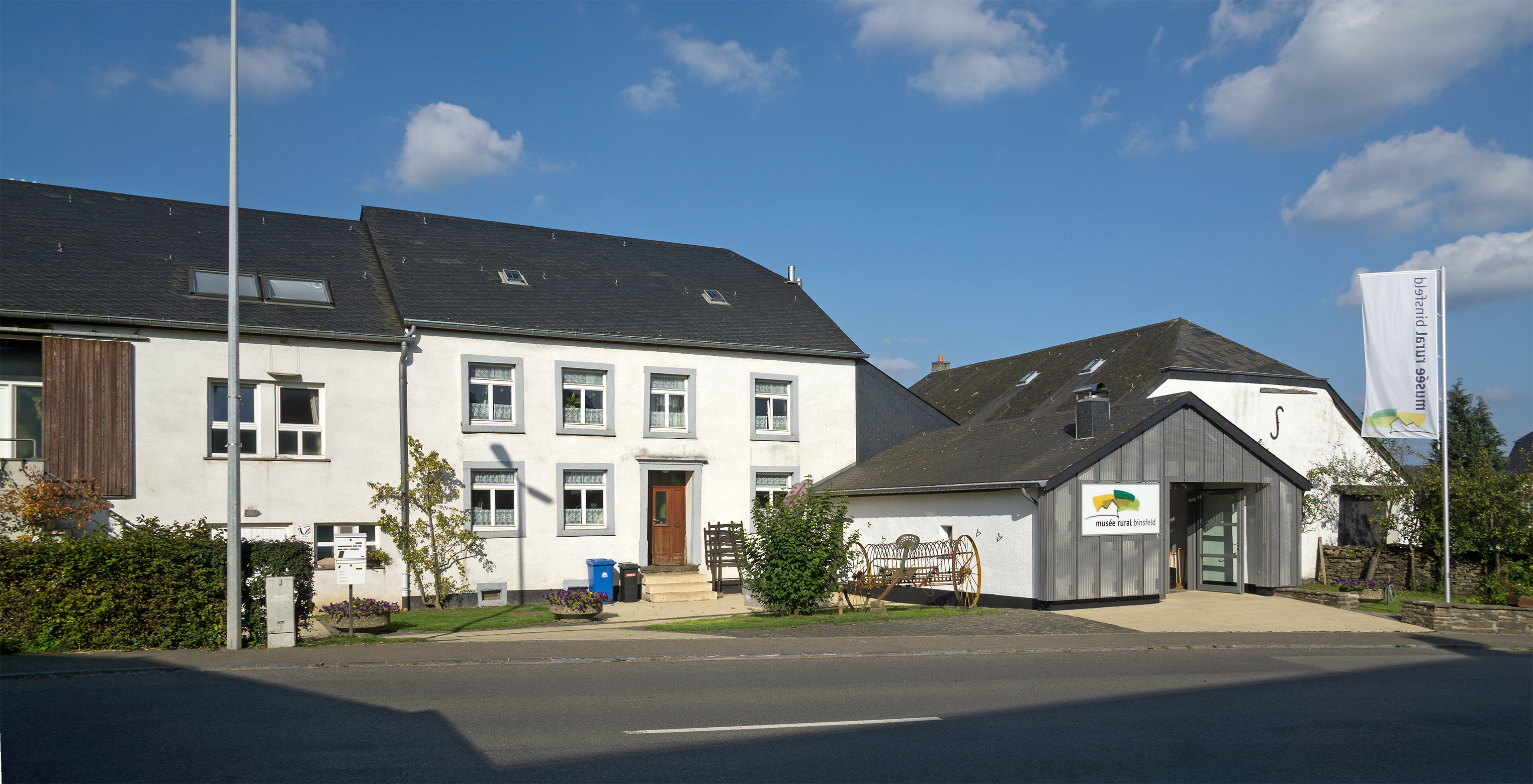 Rural museum in Binsfeld